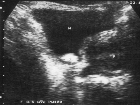 Ultrasound scan. Provided as-is. Please feel free to categorise, add description, crop or rename.